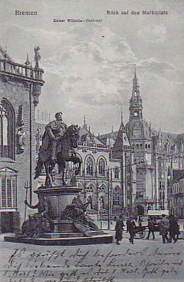 Monument to Emperor Wilhelm I of Germany in Bremen, sculpted by Robert Baerwald (destroyed)